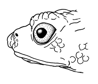 Head shape in lateral view of Osornophryne cofanorum male, DH-MECN 6248.